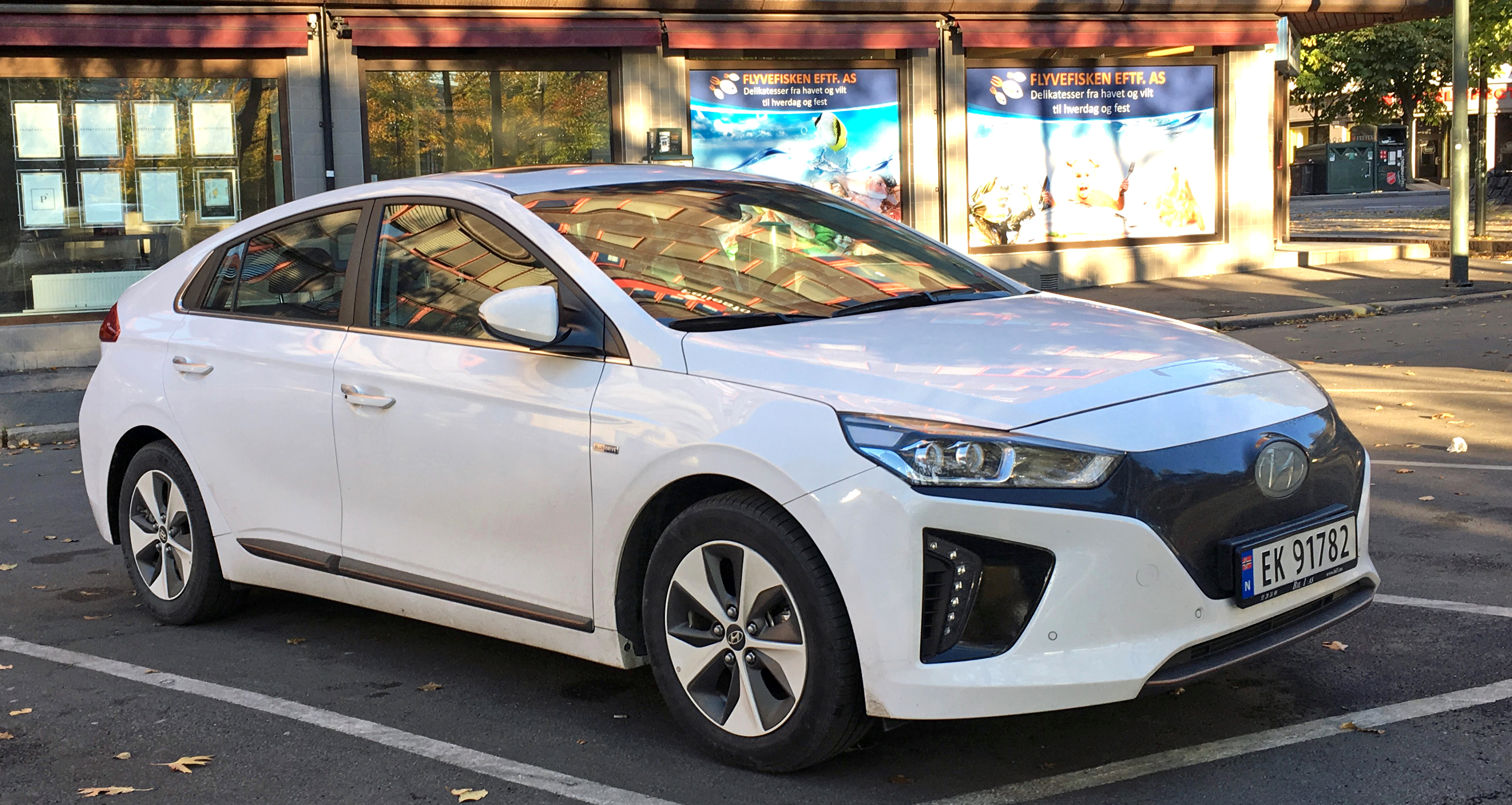 Hyundai Ionic electric in Oslo, Norway.